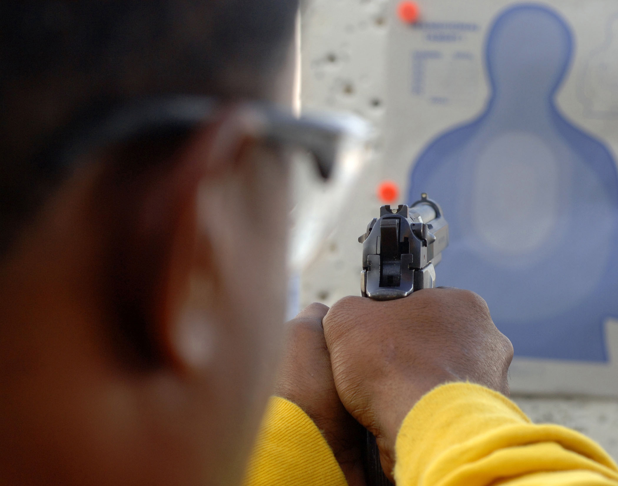 051019-N-5345W-037 Atlantic Ocean (Oct. 19, 2005) - A Sailor takes aim at his target while participating in the 9mm handgun portion of a small arms qualification aboard the Nimitz-class aircraft carrier USS Harry S. Truman (CVN 75). Truman is currently conducting carrier qualifications and sustainment training with embarked Carrier Air Wing Three (CVW-3) off the East Coast. U.S. Navy photo by Photographer's Mate 3rd Class Kristopher Wilson (RELEASED)